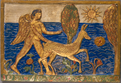 Charles Prendergast (1863 - 1948): "Rising Sun" (c. 1912), panel 12 x 17 3/4 inches.